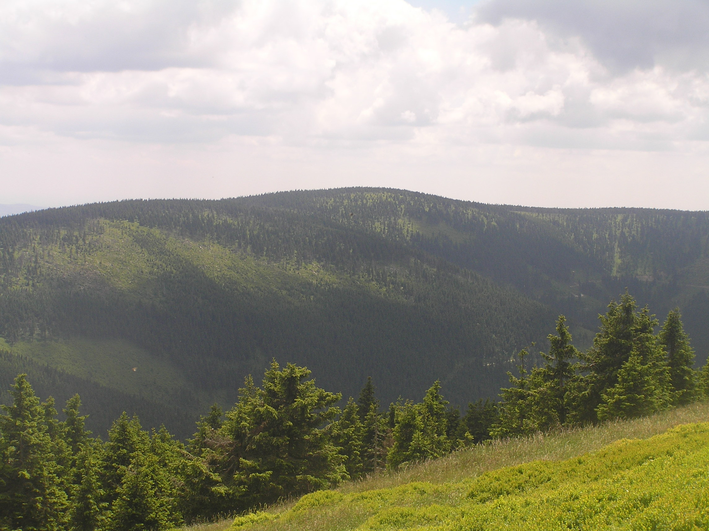 Sušina, Králický Sněžník Mountains, Czech Republic